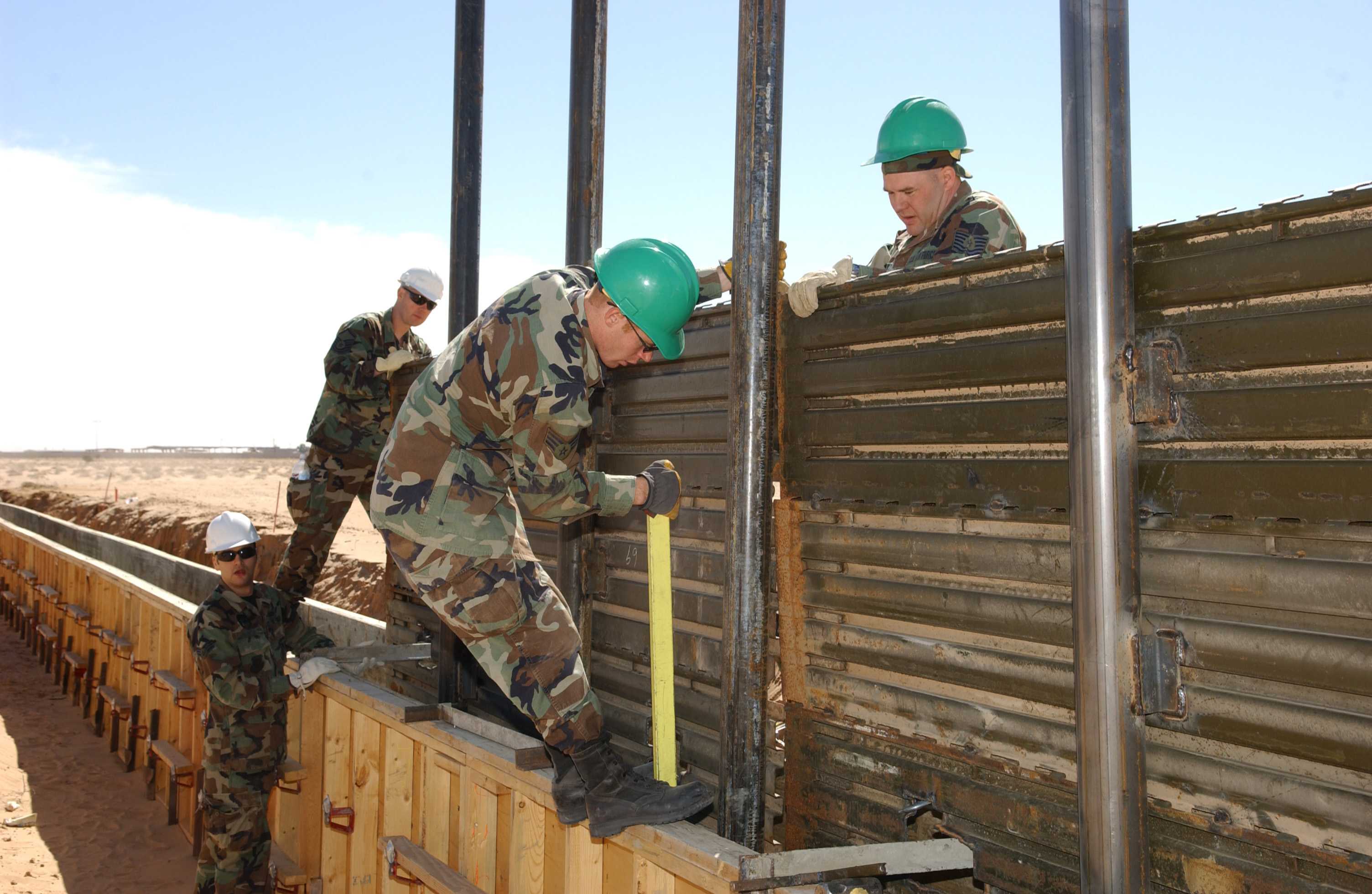 U.S. Air Force Tech. Sgt. Gordy Haldmenn (right) and Senior Airman Daniel Bones (2nd from right) construct a portion of a fence along the Mexican border in San Luis, Ariz., on March 5, 2007, in support of Operation Jump Start. The airmen are civil engineers from the 114th Fighter Wing, Sioux Falls, S.D.